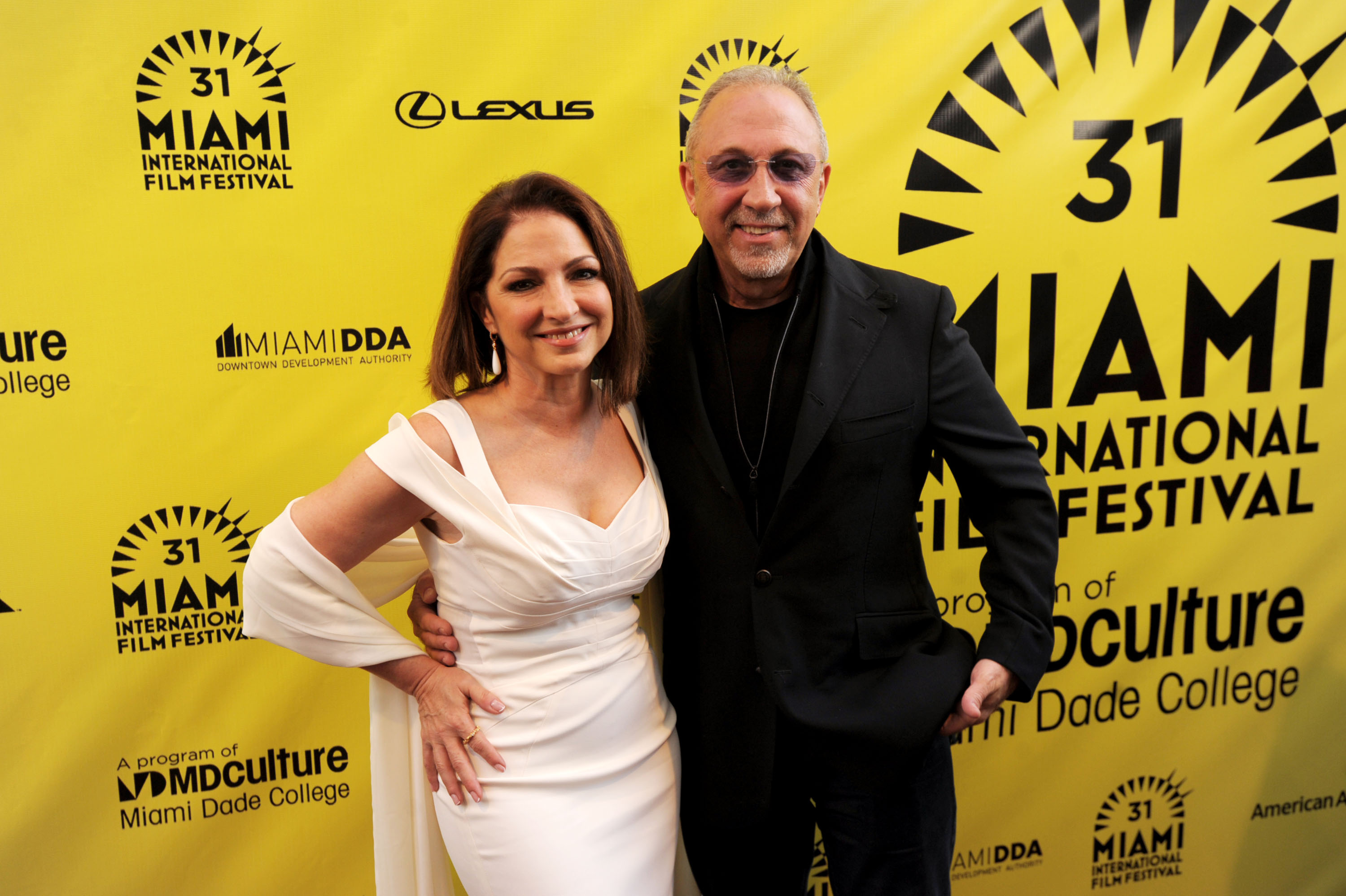 Gloria Estefan and Emilio Estefan at the 2014 Miami International Film Festival presentation of "An Unbreakable bond" Photo by: World Red Eye